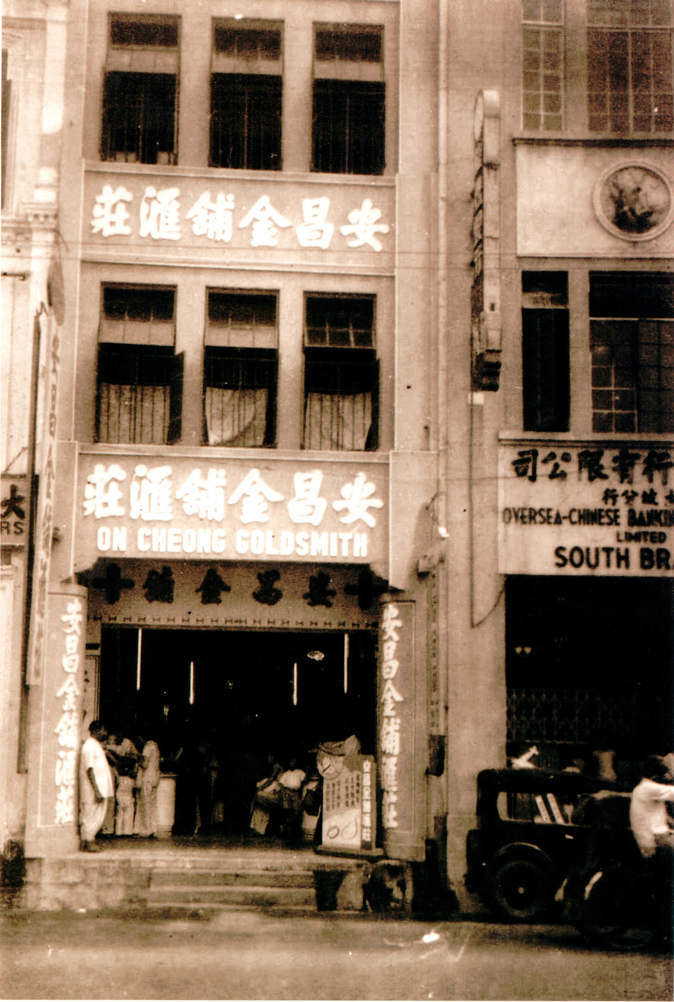 On Cheong Goldsmiths in the 50s 安昌金铺汇荘